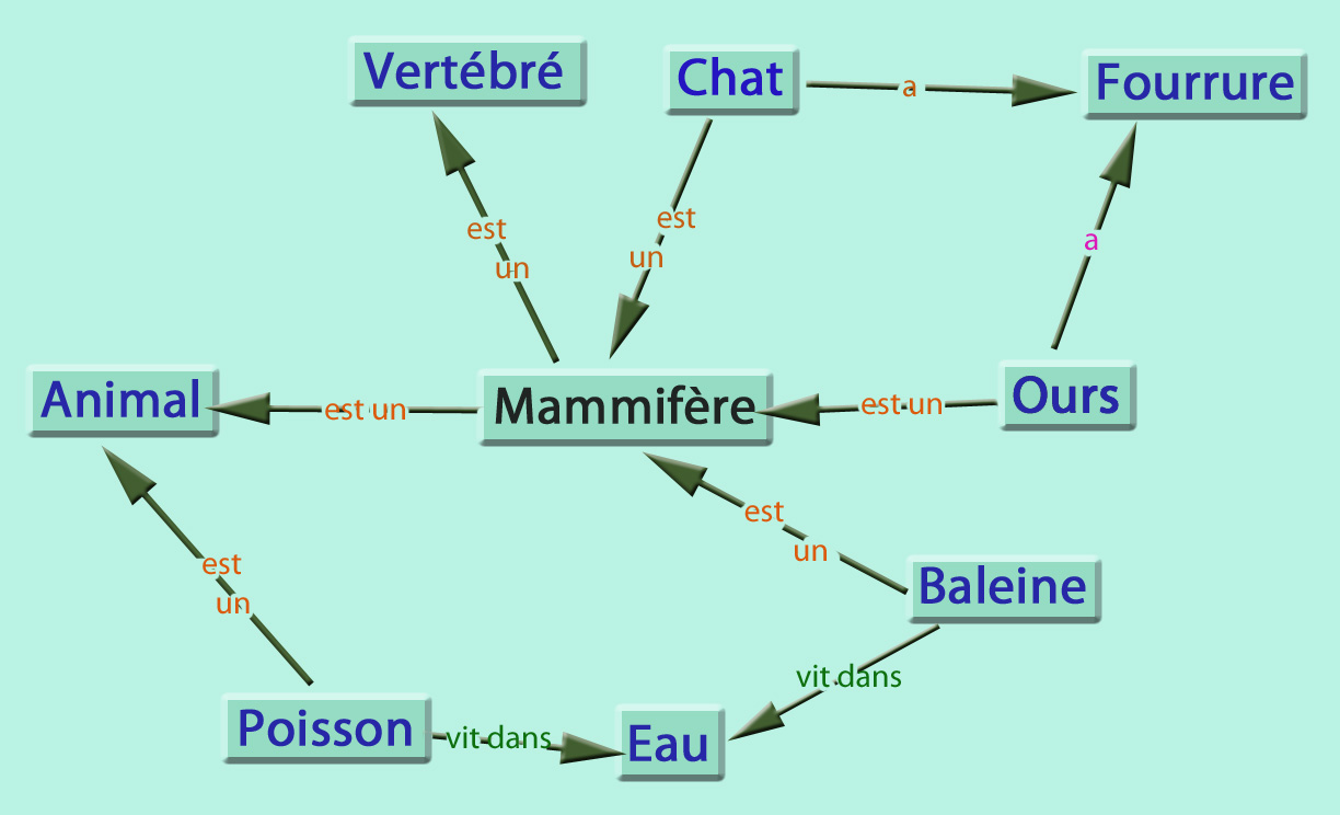 semantic net example